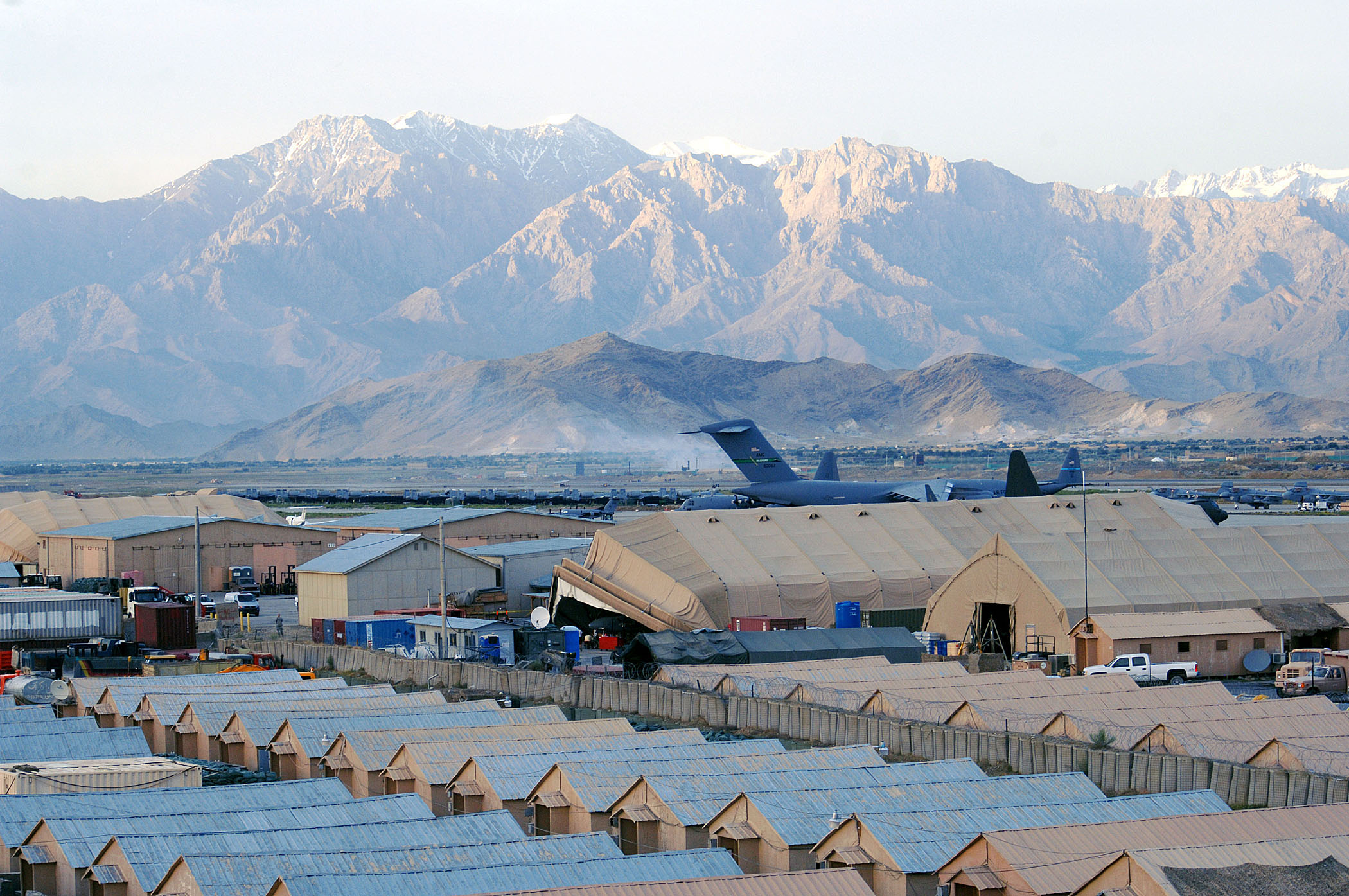 A view of Bagram Airfield, Afghanistan from the Air Traffic Control Tower's catwalk after a recent rainstorm.